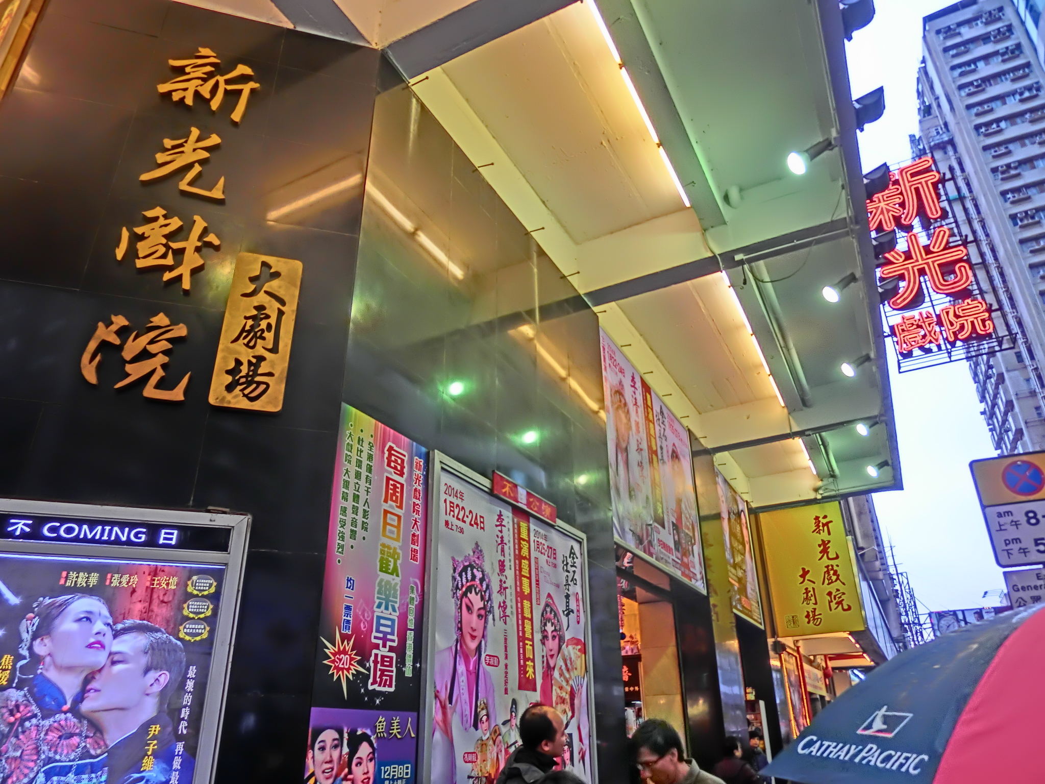 北角新光戲院, Sunbeam Theatre, King's Road, North Point, Hong Kong